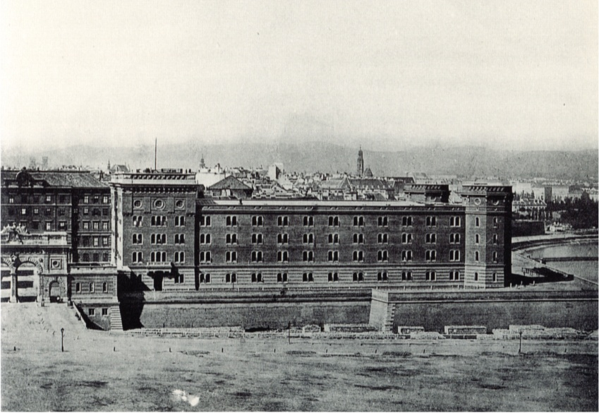 The former Franz-Joseph-Kaserne (Francis Joseph Barracks) in Vienna; Photograph shows the right wing and the right part of the main gate (left); at the right edge part of the Danube Canal; the demolition of the city walls had not yet started